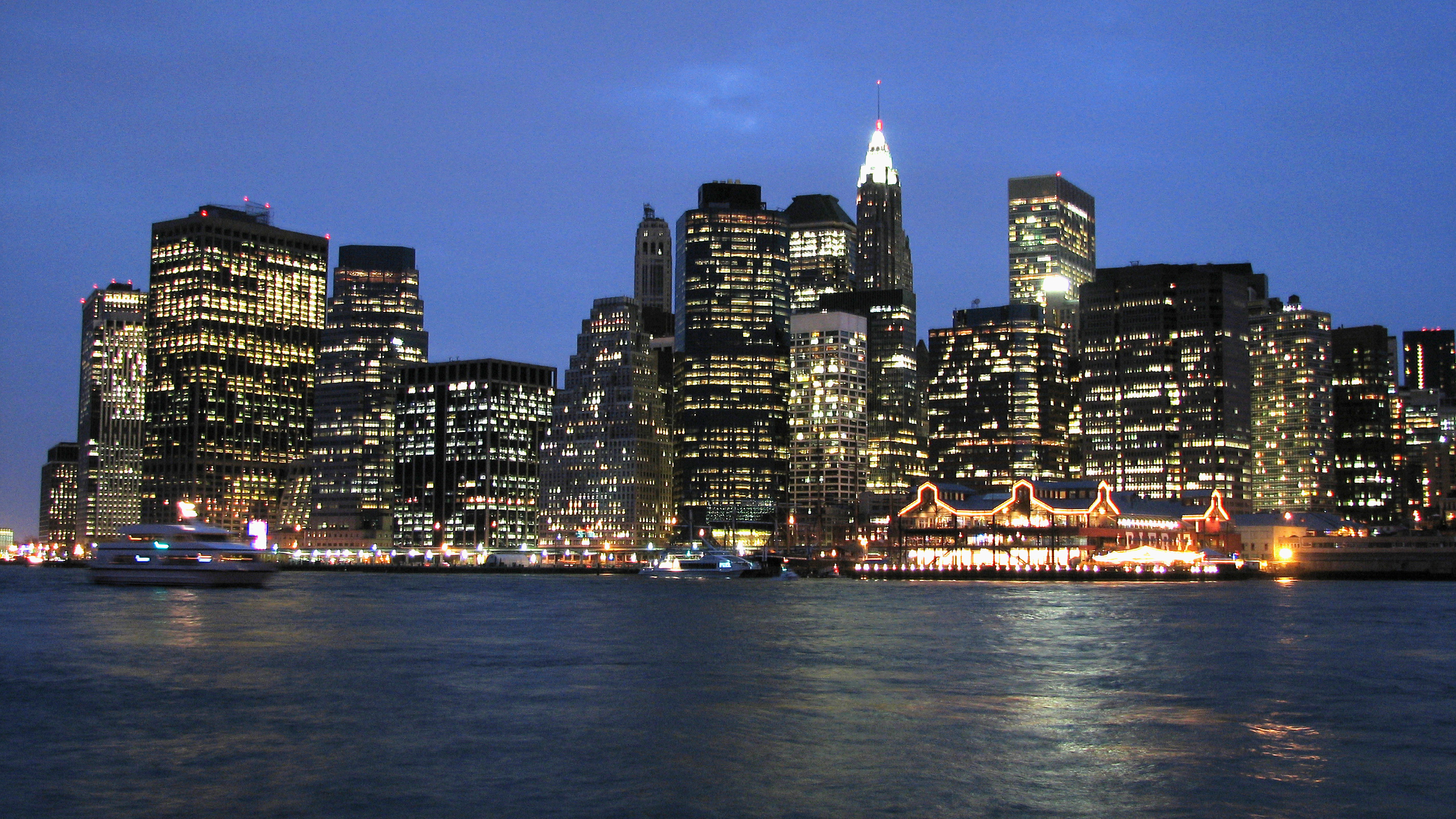 Lower Manhattan at late dusk. See also File:South Street Seaport NYC.jpg